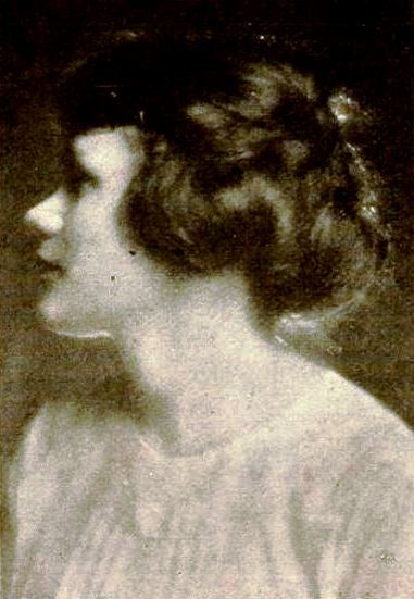 American screenwriter Agnes Christine Johnston, on page 745 of the February 8, 1919 Moving Picture World.